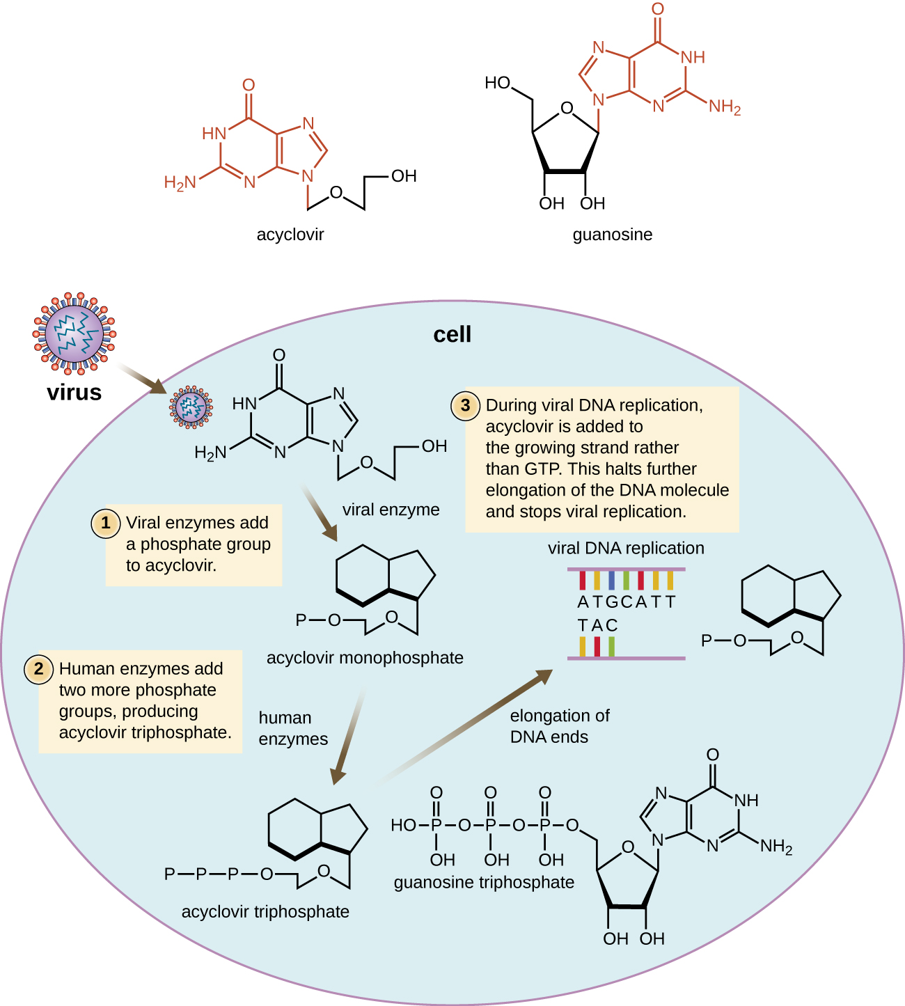 Name: Microbiology ID: Language: English Summary: Subjects: Science and Technology Keywords: Print Style: License: Creative Commons Attribution License (by 4.0) Authors: OpenStax Microbiology Copyright Holders: OpenStax Microbiology Publishers: OpenStax Microbiology Latest Version: 4.4 First Publication Date: Oct 17, 2016 Latest Revision: Nov 11, 2016 Last Edited By: OpenStax Microbiology